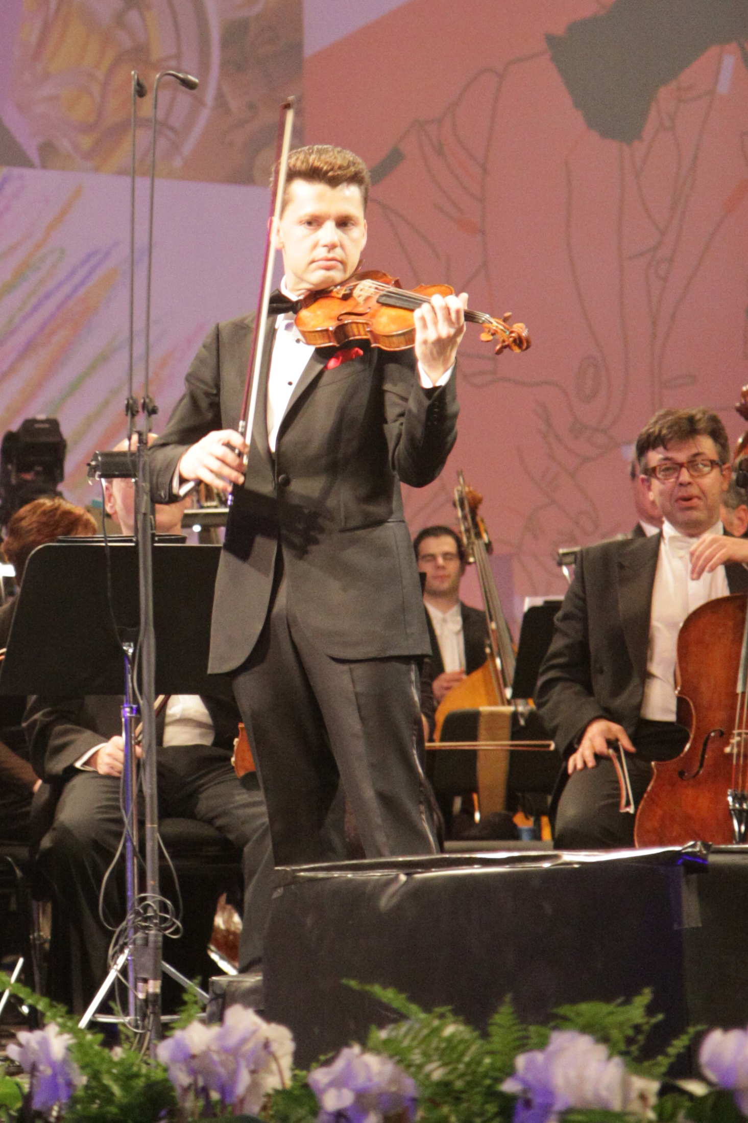 Julian Rachlin. Concert with Israel Philharmonic Orchestra. Tel Aviv, 24-12-2011